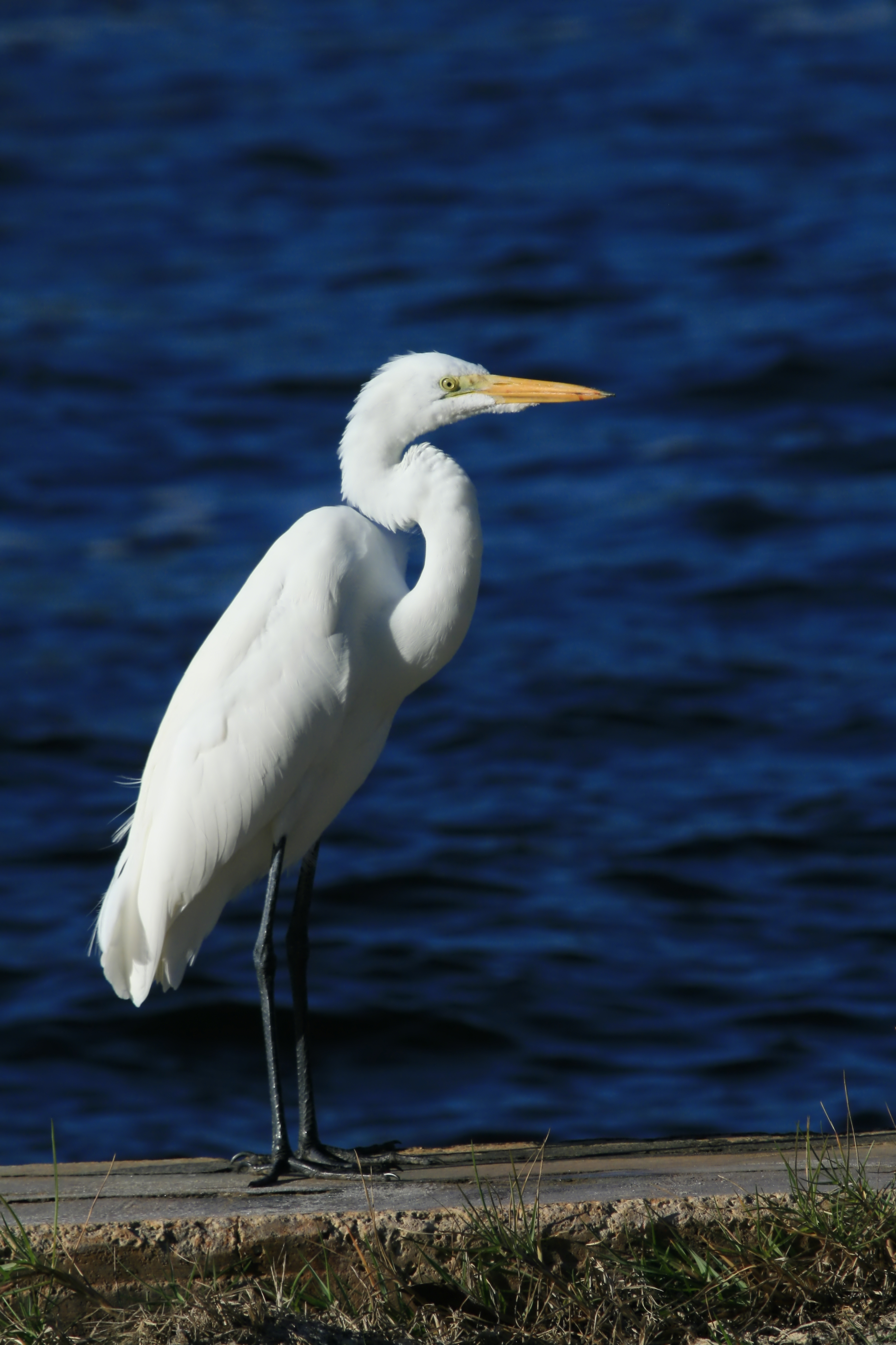 A Great Egret (Ardea alba) in Hugh Taylor Birch State Park in Fort Lauderdale, Florida, United States.